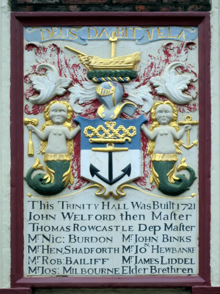 Trinity House Yard, plaque on south wall